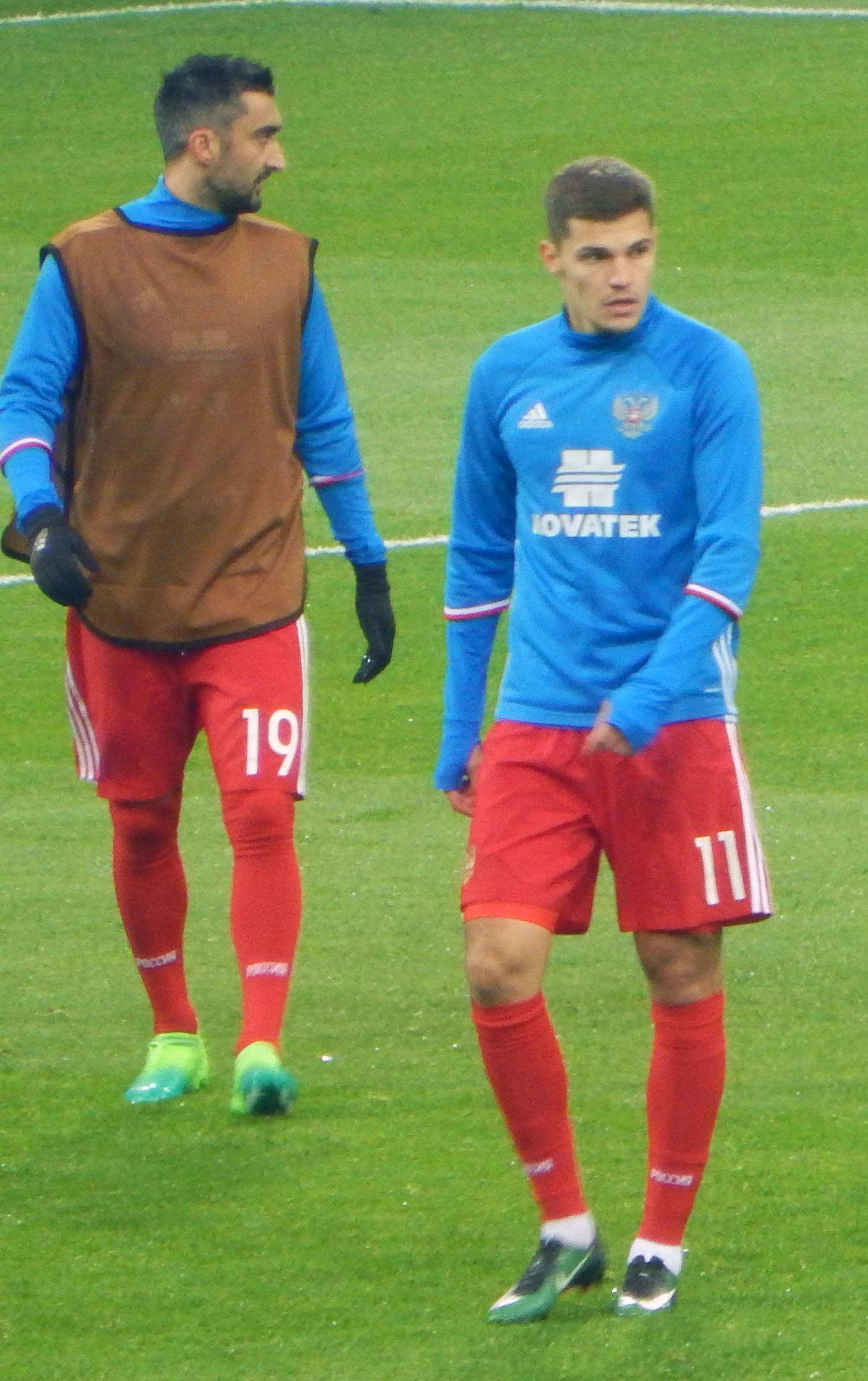 This photo was taken on March 28, 2017 during the exhibition game between Russia and Belgium. That game was held in Adler (City of Sochi) at the Fisht stadium.